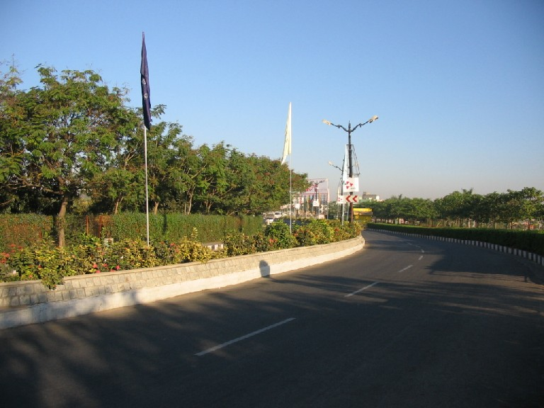 I have photographed these images with my Canon Digital Camera